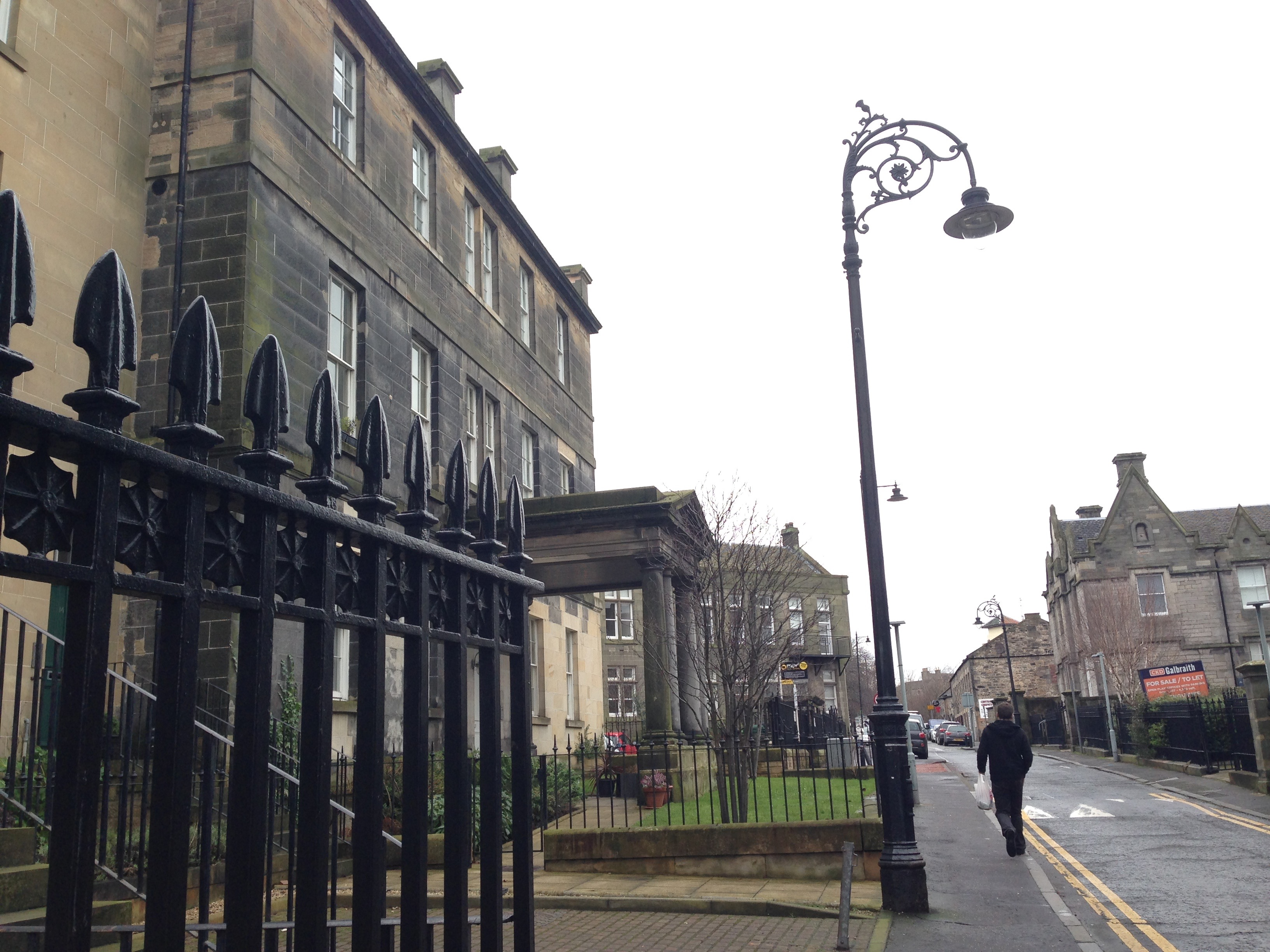 Lamp-post and wrought iron railings by Leith Hospital, Mill Lane